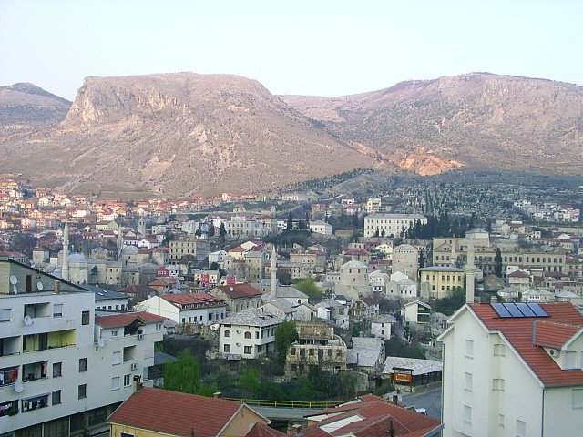 City of Mostar, southern Bosnia and Herzegovina